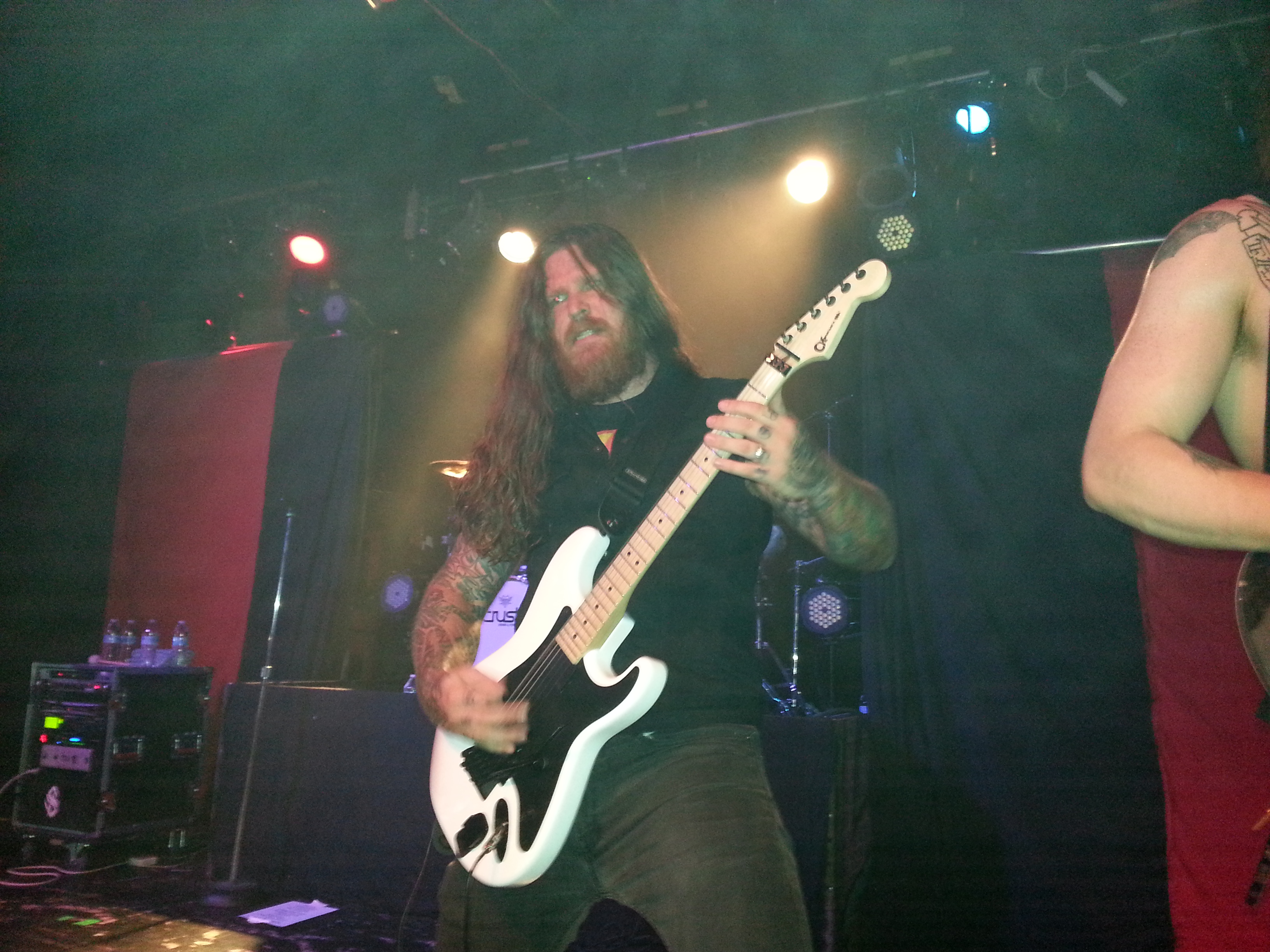 Jeremiah Scott performing in 2014